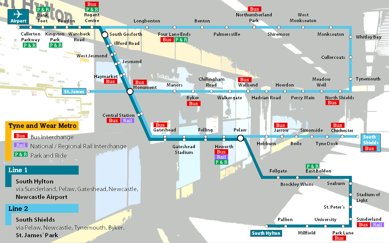 Tyne and Wear Metro Map accurate from 2007 Onwards. Background Image: South Hylton Platform 1